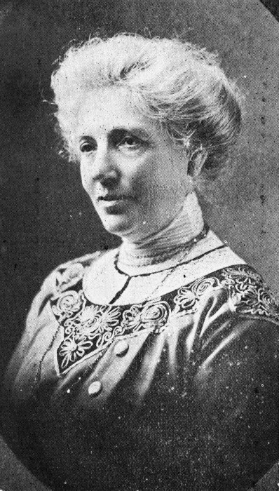 Kate Wilson Sheppard, circa 1914. Photographer unidentified. The above image is of Kate Wilson Sheppard (1848-1934) In White Ribbon, vol. 20 no. 230, 18 August 1914. Original photo is in the Alexander Turnbull Library. The photo was used in newsletters and publications celebrating the centenary of the Women's Suffrage Petition in 1993, and was transferred to Archives New Zealand by the Ministry of Women's Affairs.